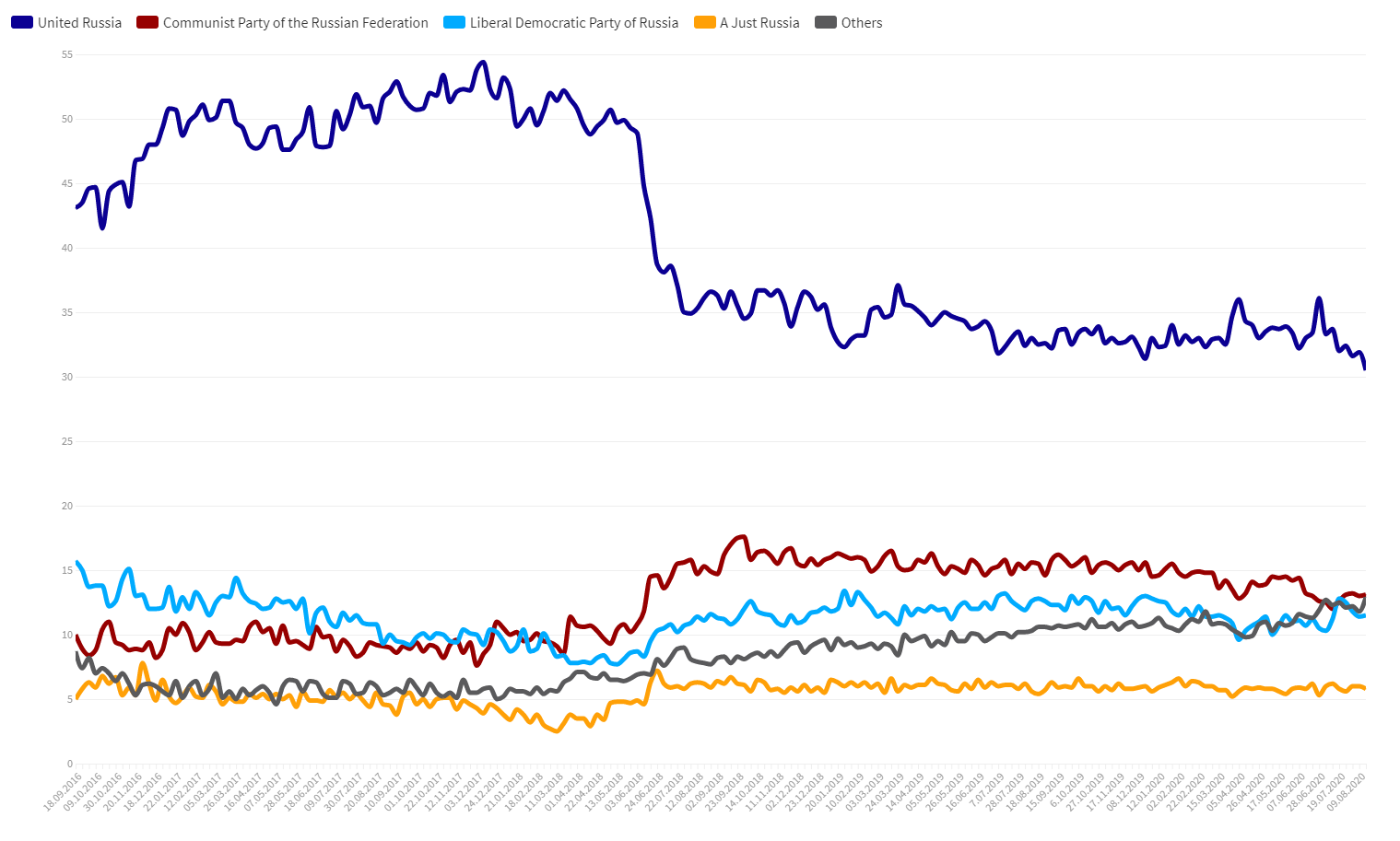 This image contains russian opinion polling by the company WCIOM which does polling on what people would vote for if a legislative election was held in the Russian Federation today.